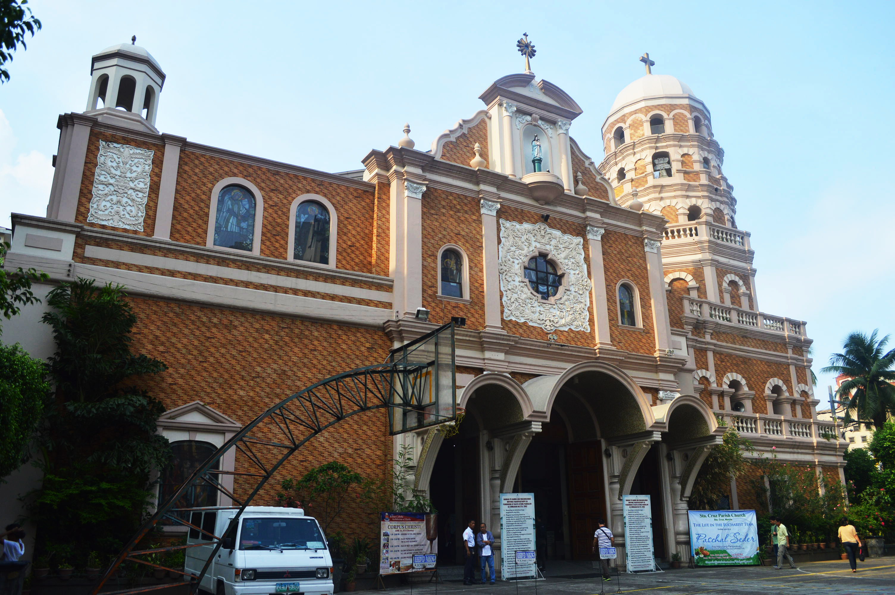 View of Santa Cruz Church from parking in front.